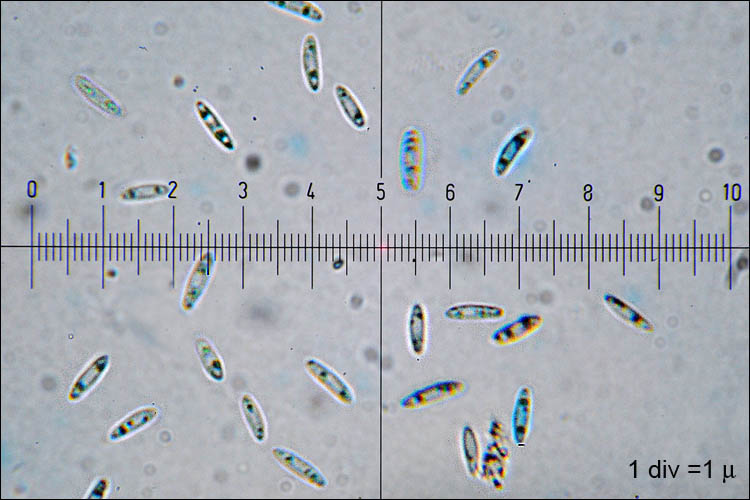 Chlorociboria aeruginascens Blue Stain, Green Elfcup, Gruener Holzbecherling Substratum: heavily rotten, debarked piece of wood of an unknown tree, but not oak. Place: Bovec basin, South slopes of Mt. Rombon, 2208 m (7,244 feet), above 'Pri Plajerjevi skali' place, northeast of Bovec, East Julian Alps, Posočje, Slovenia EC. Comments: Photographed in quite dry and frozen state. Spore dimensions 8.0 (SD=0.6) x 2.0 (SD=0.3) micr., n=25. Motic B1-211A, magnification 1.000 x, oil, in water.